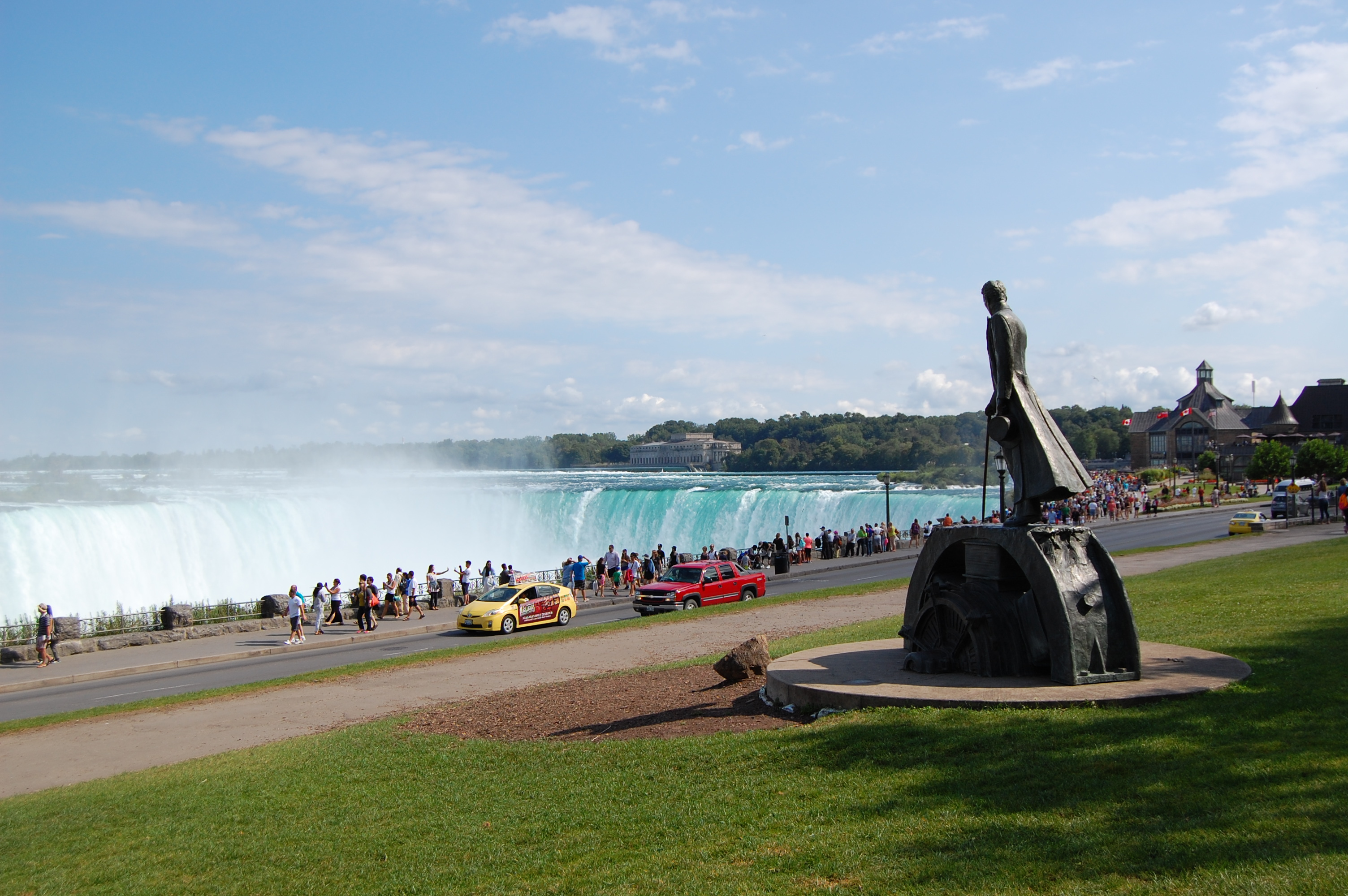 Nikola Tesla monument in Niagara Falls, Ontario